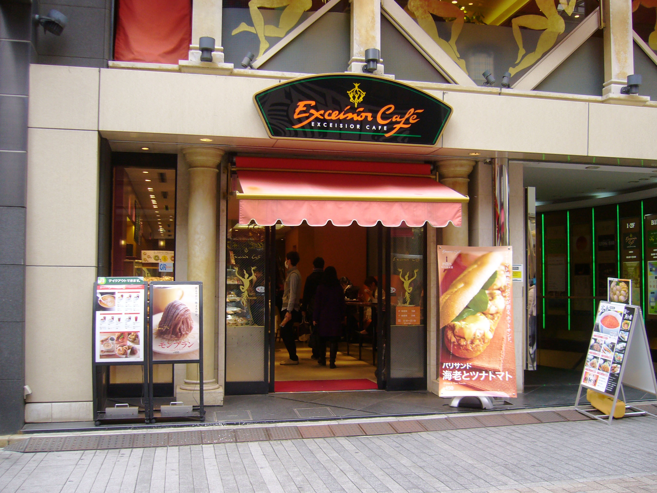 Exceisior Cafe (Tokyo, Japan)